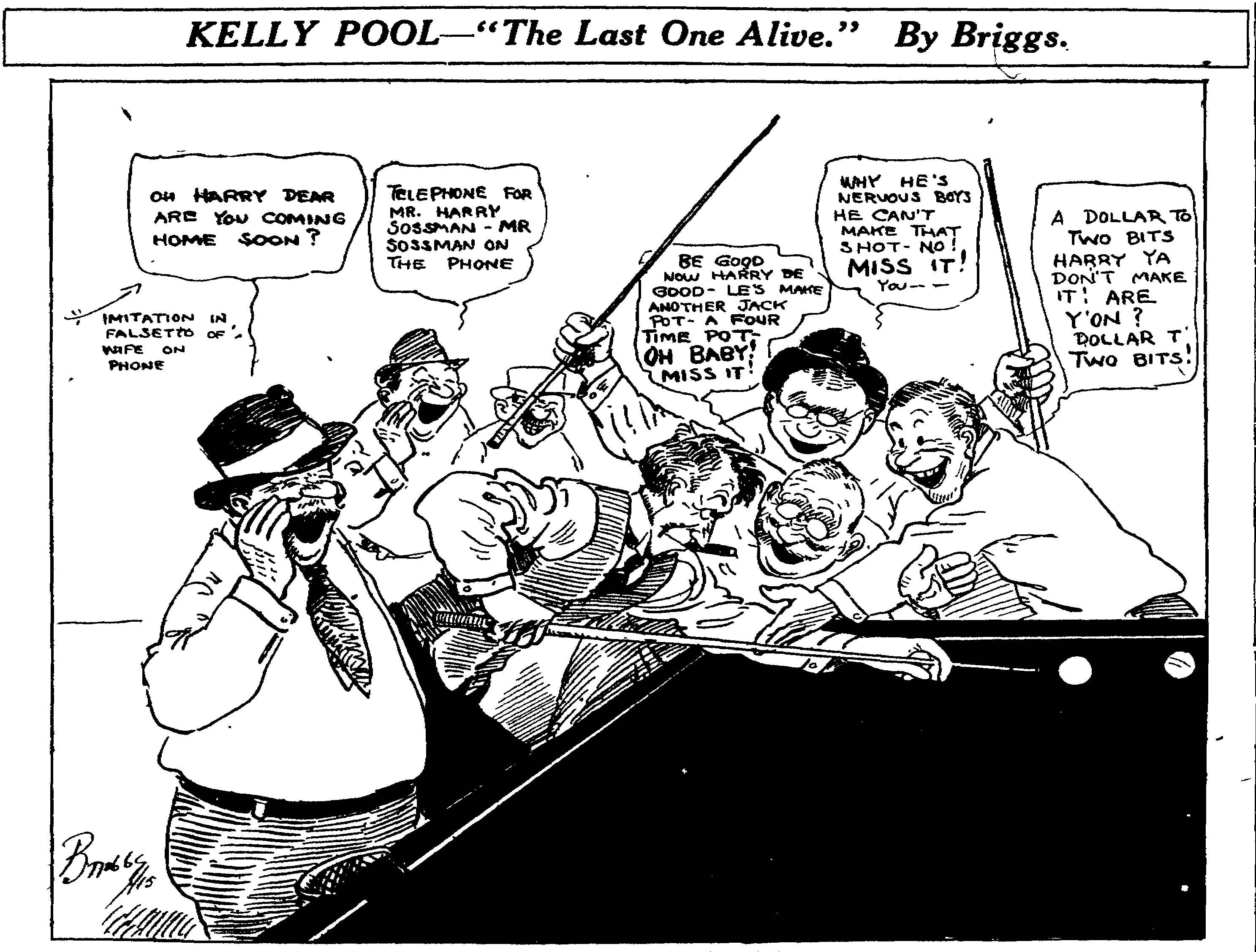 Kelly Pool comic panel. Kelly Pool appeared regularly from 1912 to 1917 in the New York Tribune and appeared as well in other papers.